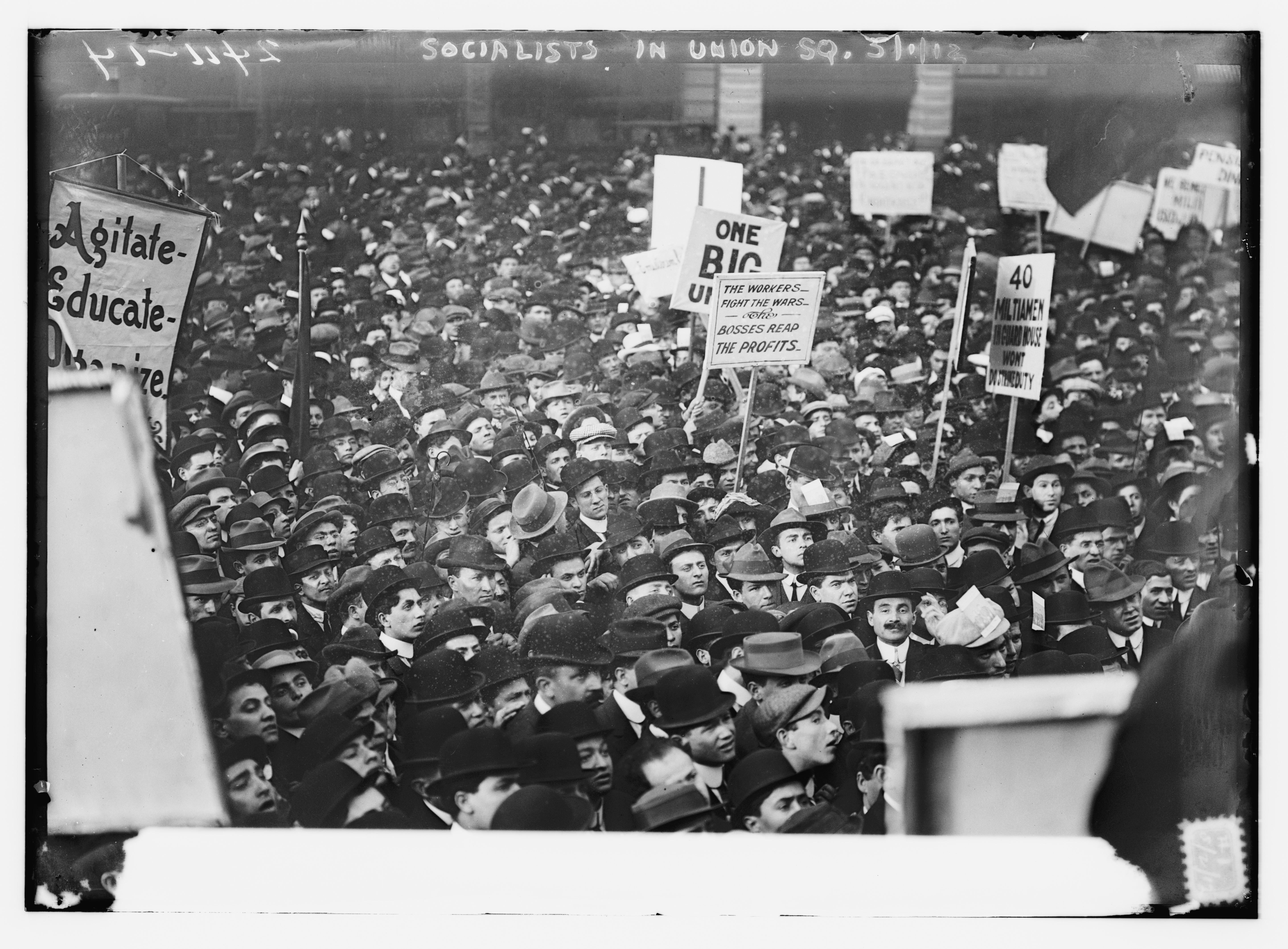 Bain News Service,, publisher. Socialists in Union Square, N.Y.C. [large crowd] Photo, 1 May 1912 - Bain Coll. 1 May 1912 (date created or published later by Bain) 1 negative : glass ; 5 x 7 in. or smaller. Notes: Title from unverified data provided by the Bain News Service on the negatives or caption cards. Forms part of: George Grantham Bain Collection (Library of Congress). Subjects: N.Y.C. Format: Glass negatives. Repository: Library of Congress, Prints and Photographs Division, Washington, D.C. 20540 USA, General information about the Bain Collection is available at Persistent URL: Call Number: LC-B2- 2411-14